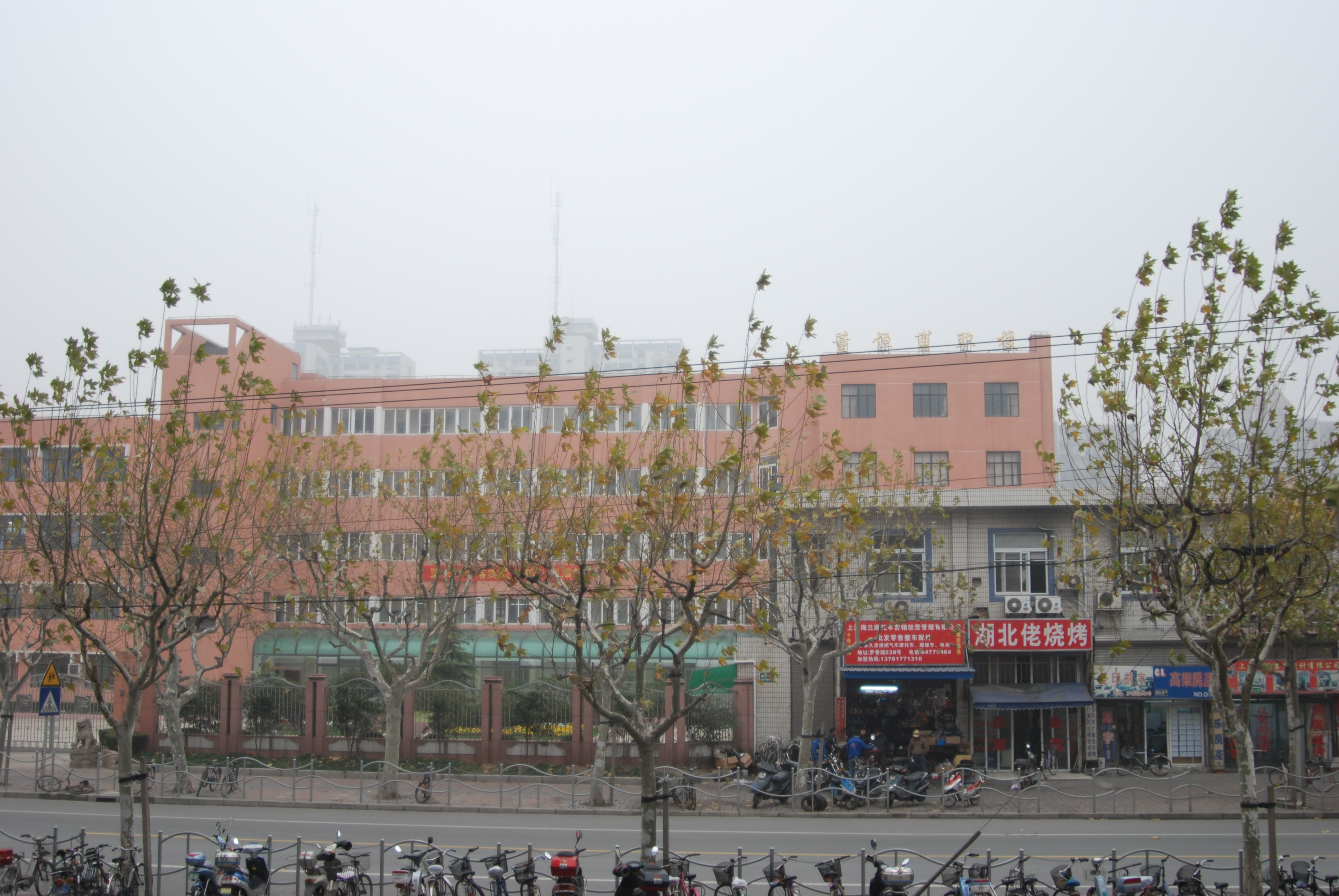 Dong Hengfu vocational high school in Luoxiang Road董恒甫职业技术学校(罗香校区)